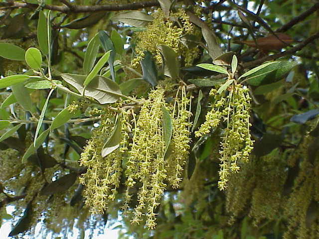 Species: Quercus ilex Family: Fagaceae Image No. 1